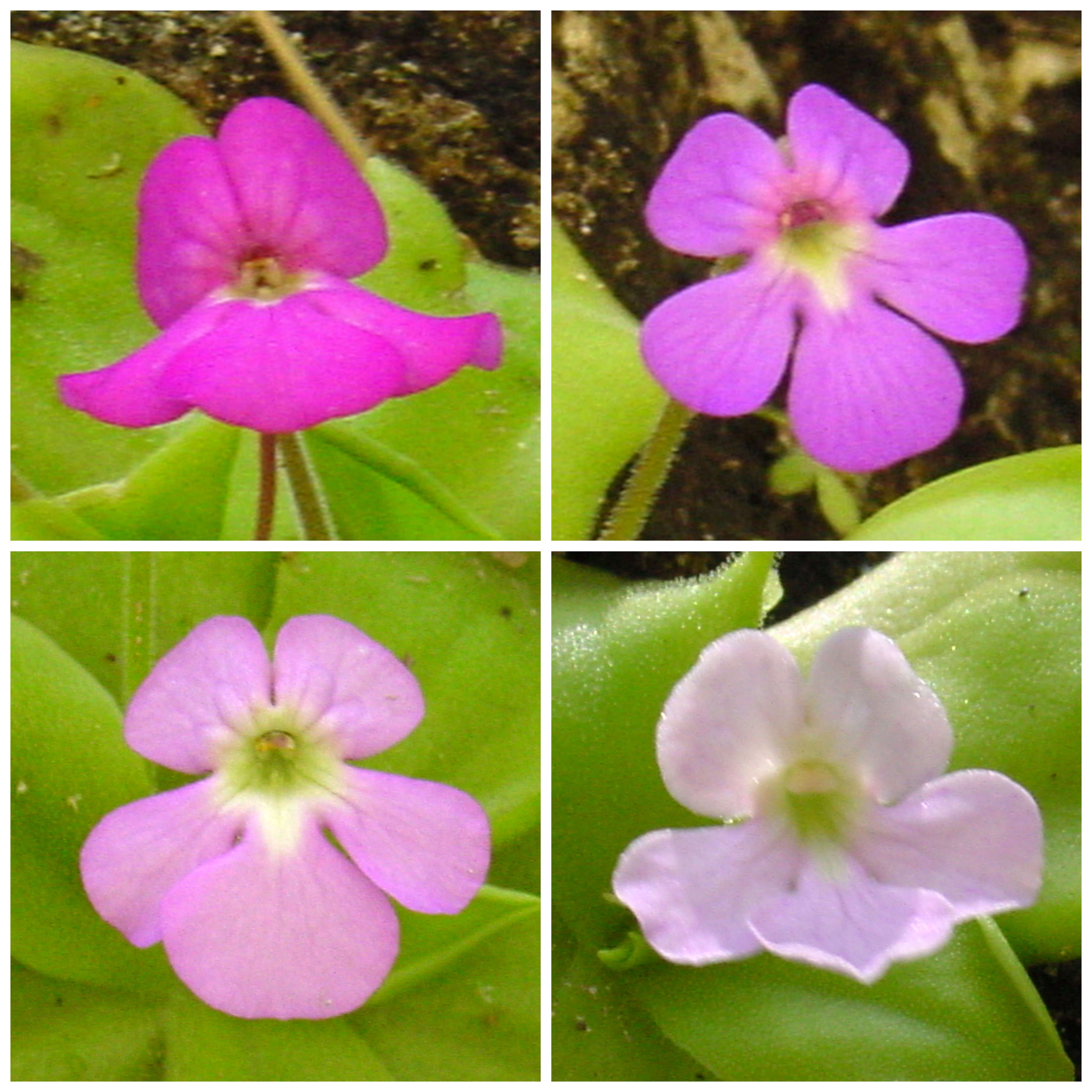 Pinguicula elizabethiae in situ at Toliman Canyon, Hidalgo state, Mexico